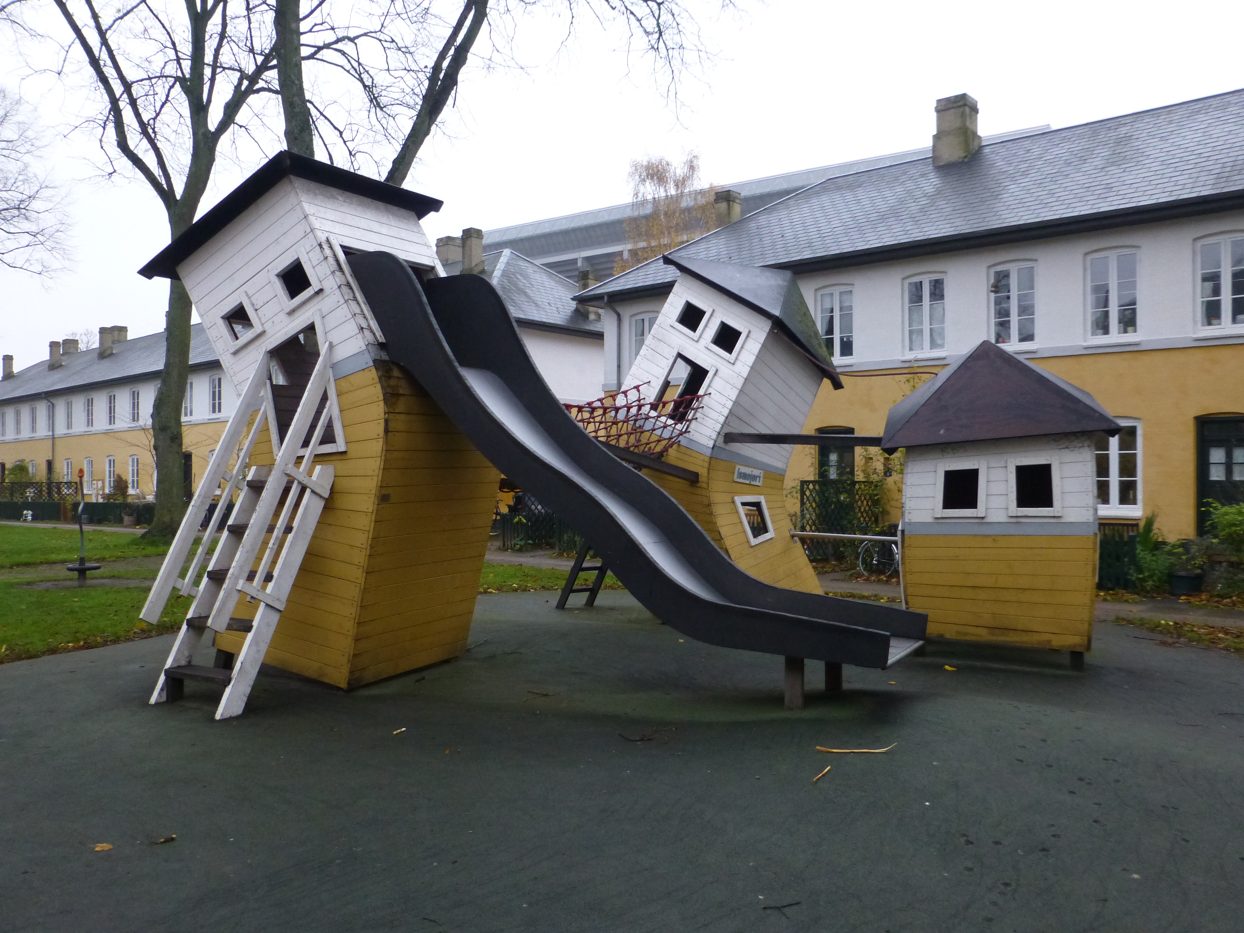 The area Brumleby in Østerbro in Copenhagen.